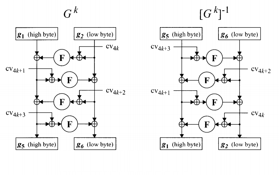 Skipjack: schematic representation of G-permutation block.